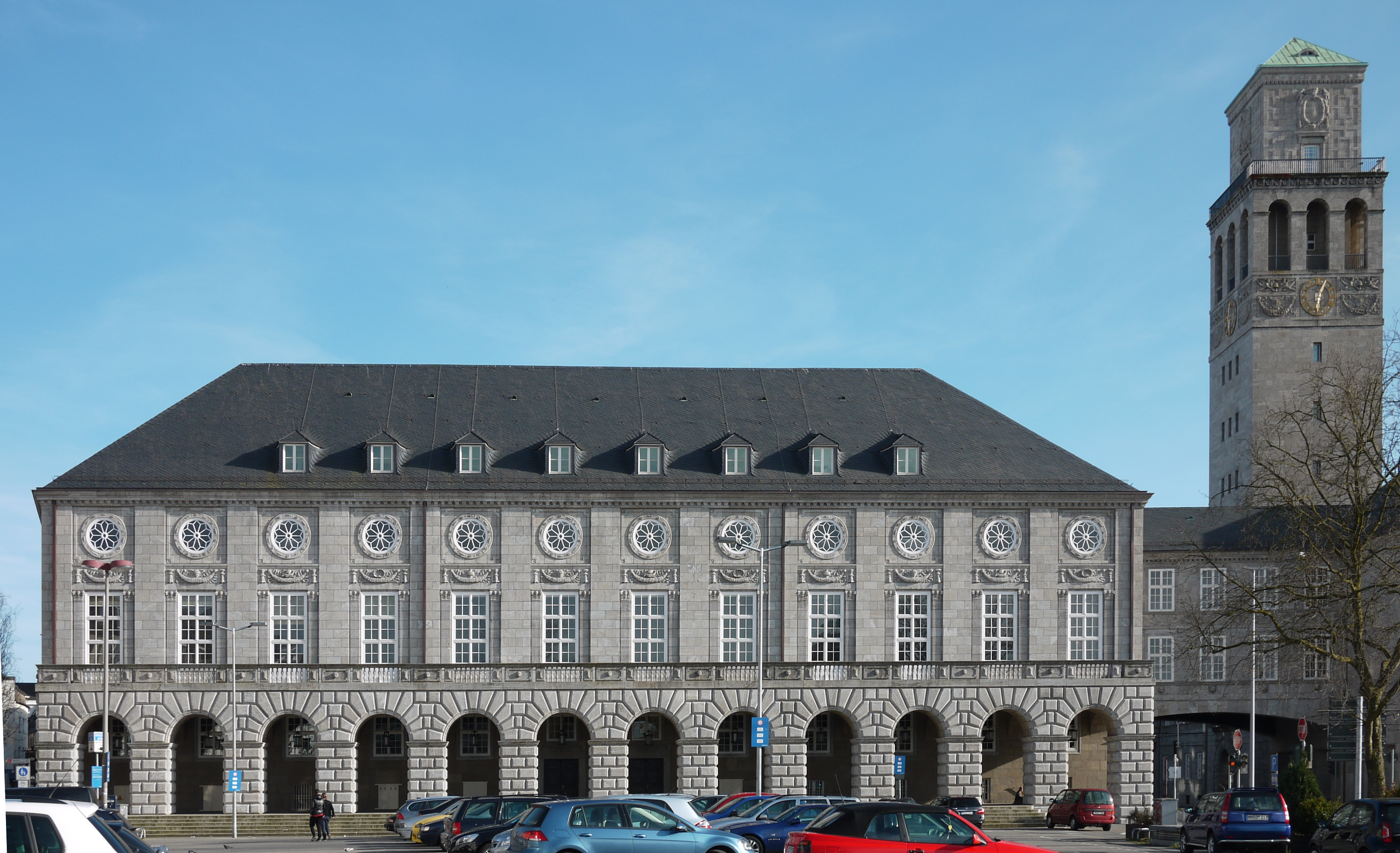 Town hall of Mülheim an der Ruhr with "Rathausturm" (Town hall Tower) photographed from the market square in front of the town hall